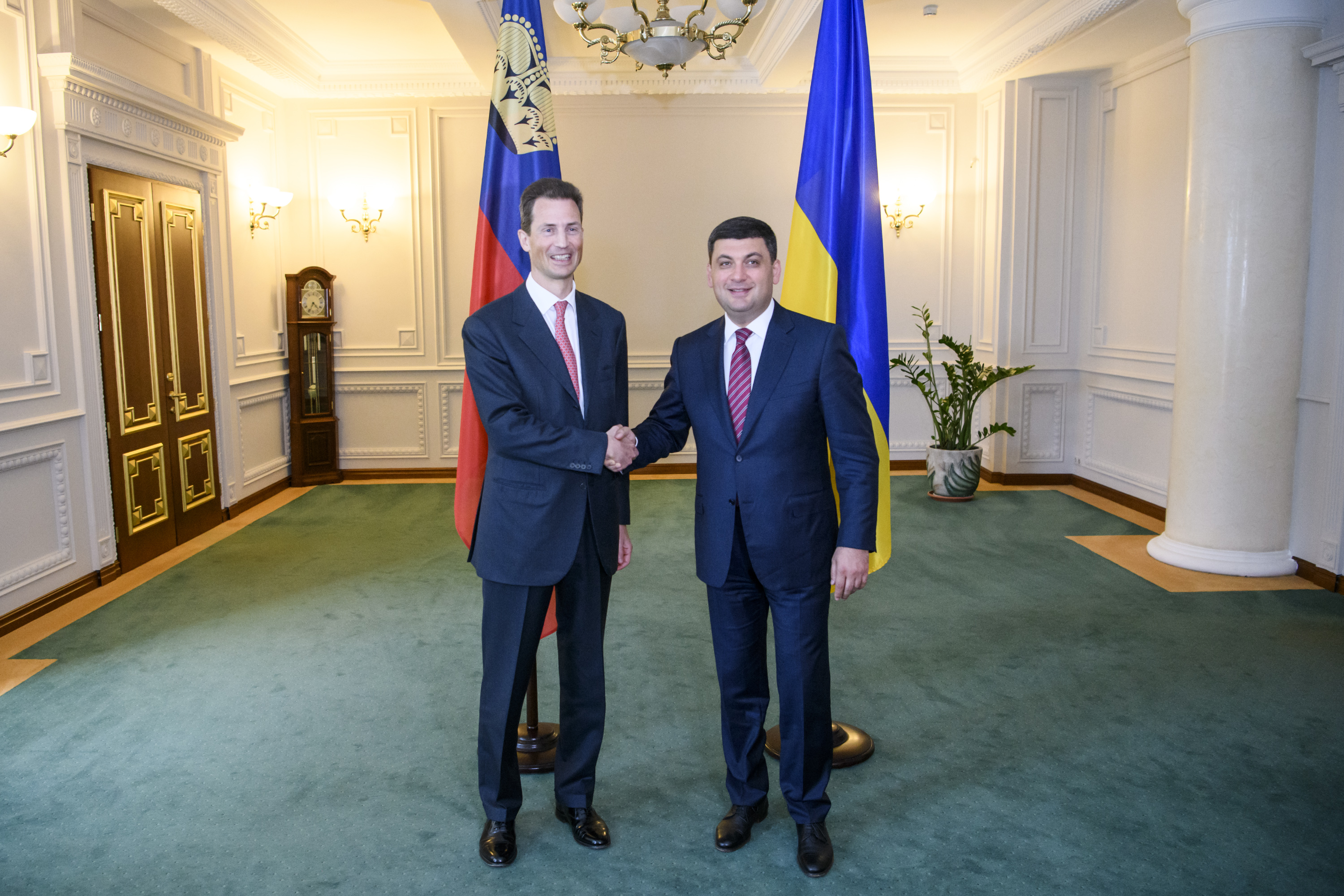 Alois Philipp, Prince of Liechtenstein and Volodymyr Groysman